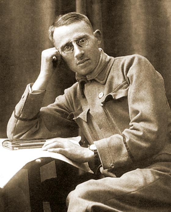 Осип Назарук (Osyp Nazaruk) (1883-1940) Ukrainian writer, journalist. Here as Ukrainian Sich rifleman.